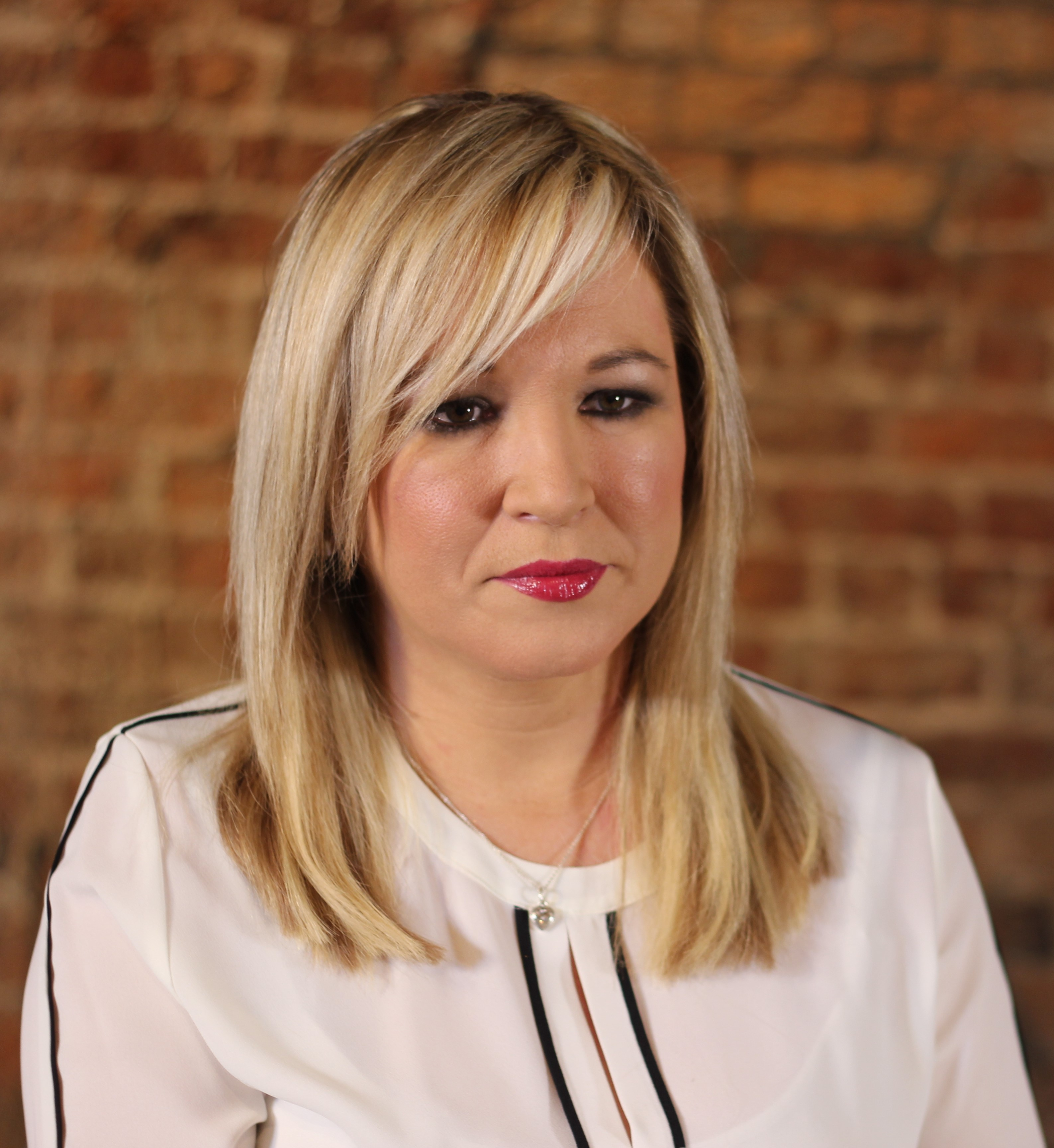 Michelle O'Neill in January 2017